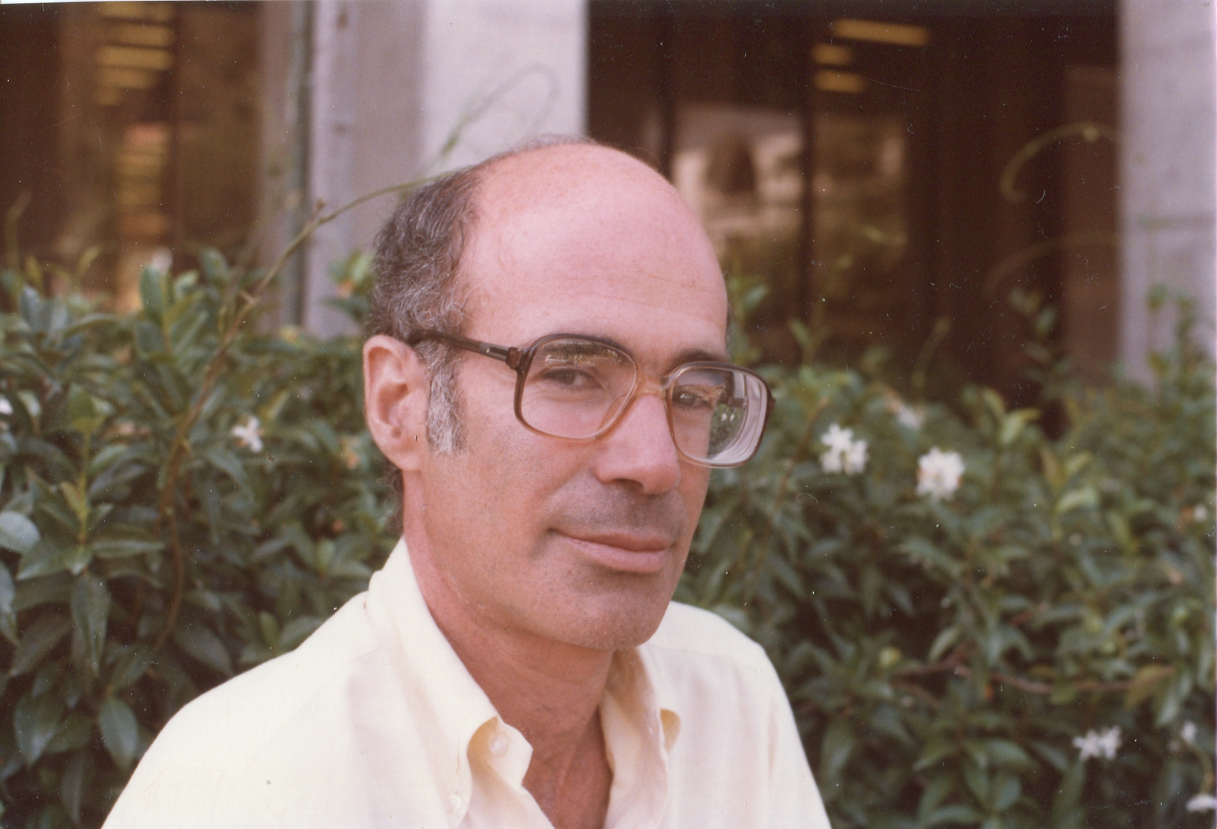 Canadian-American mathematician/statistician David Amial Freedman at Berkeley, California (presumably University of California, Berkeley)